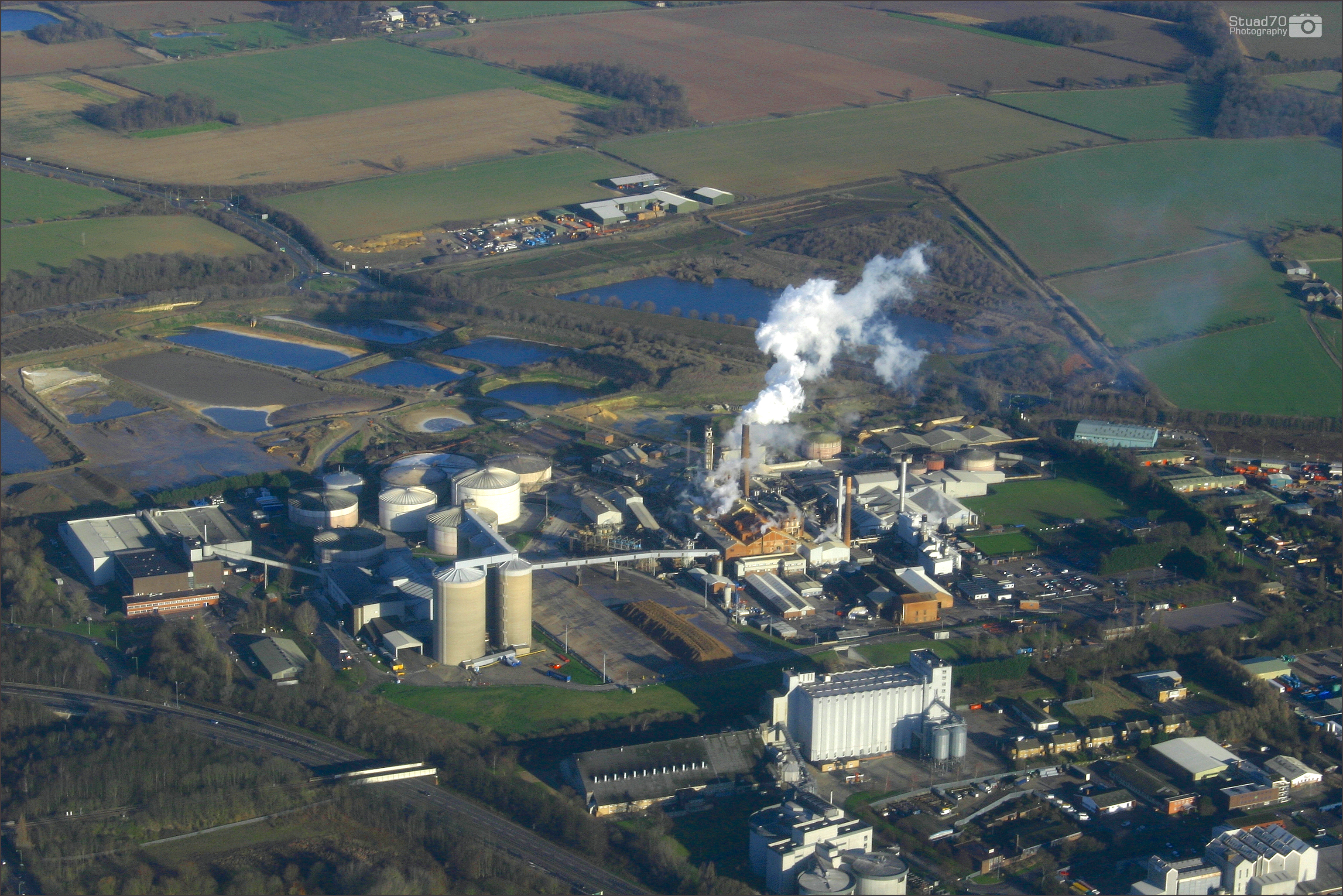 Sugarbeet Processing Plant. It also a major packaging plant for Silver Spoon.